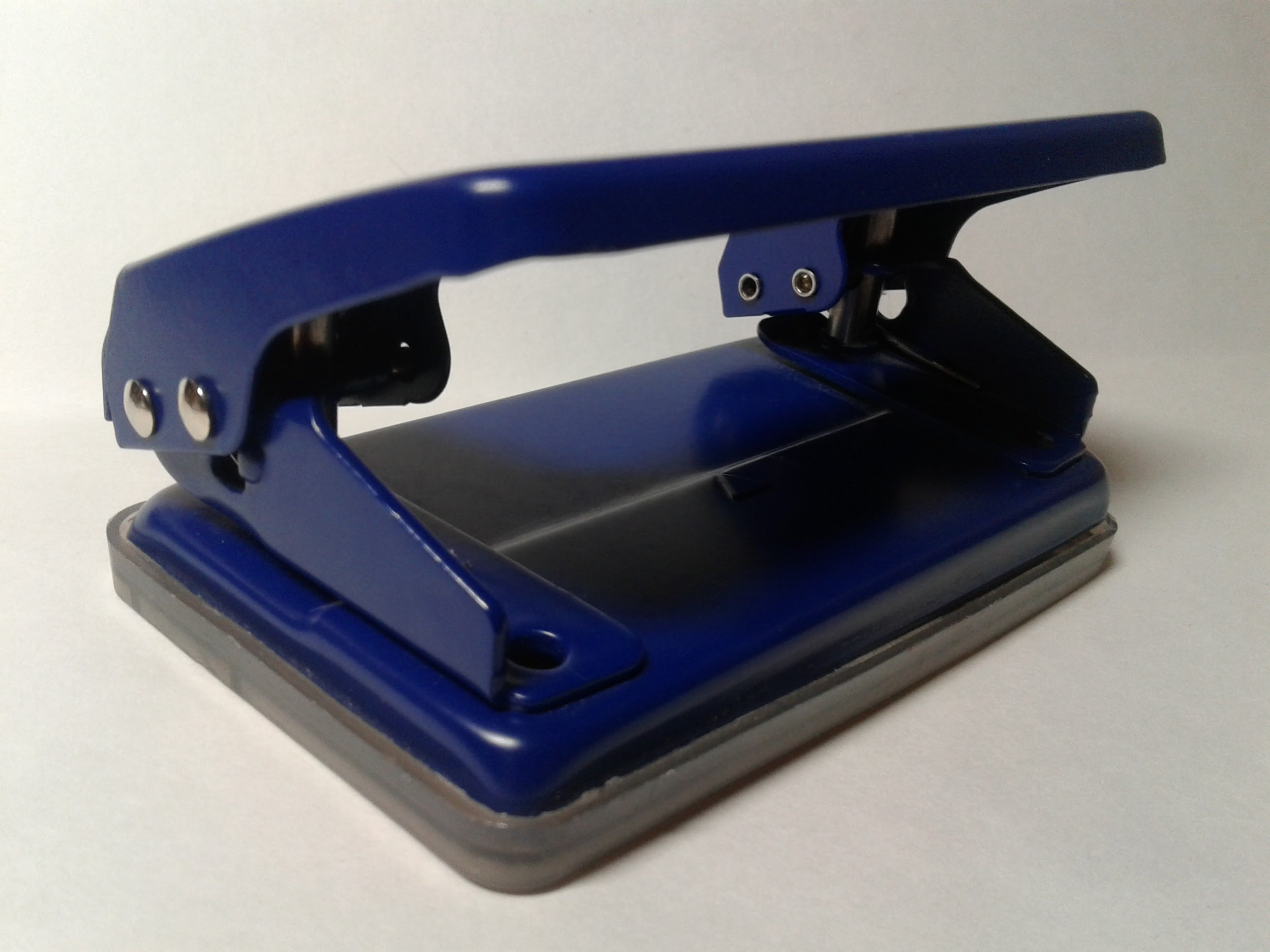 Современный дырокрл